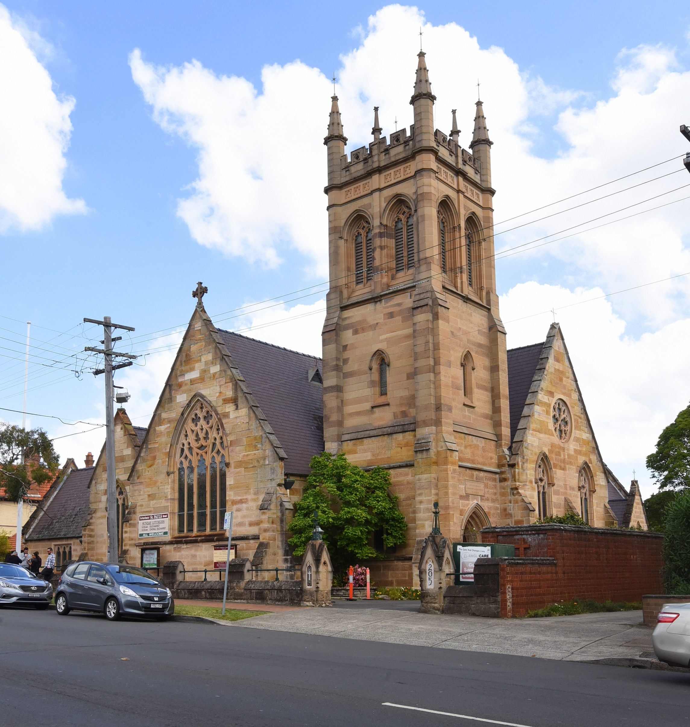 St Paul's, Burwood, Sydney